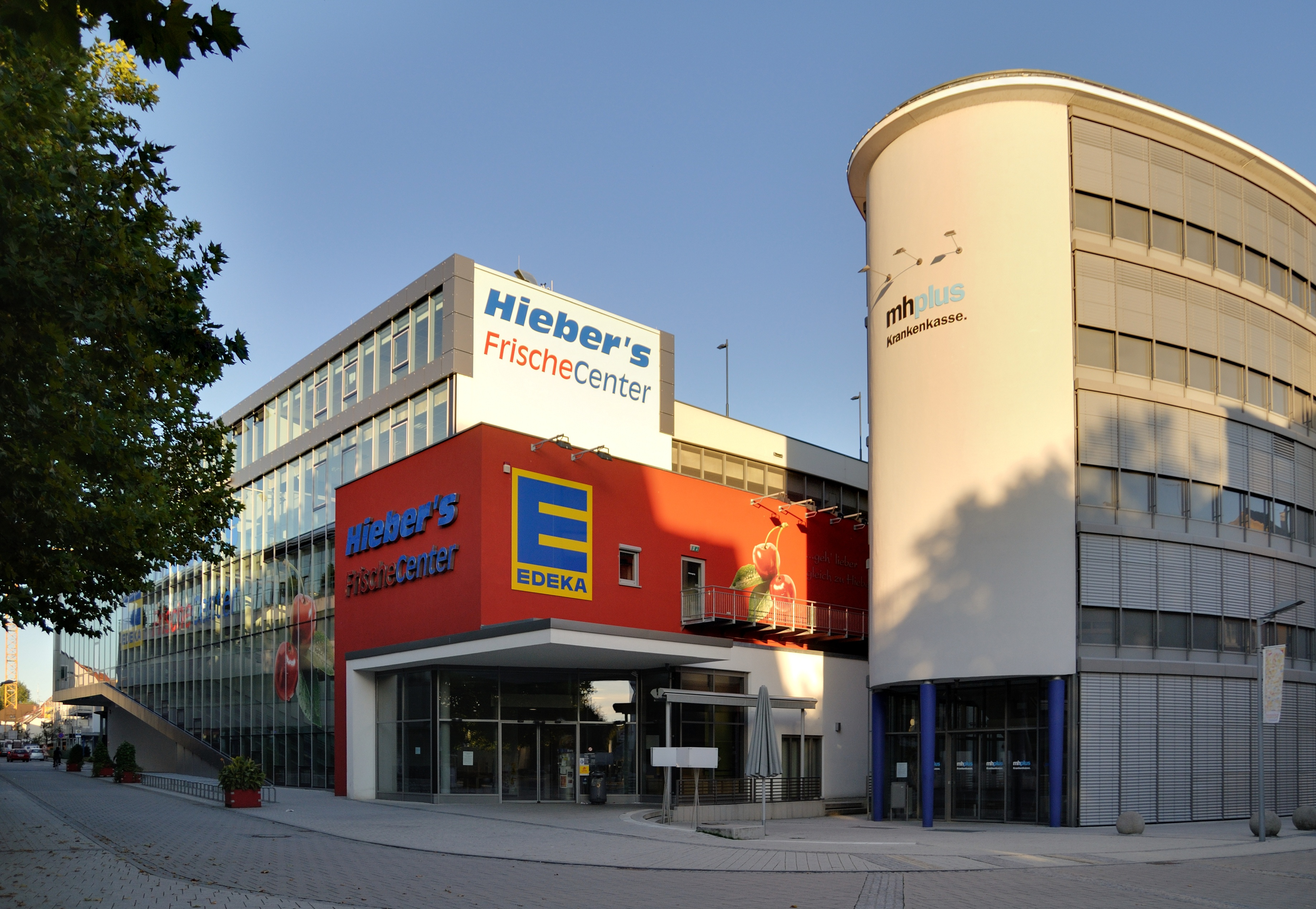 Rheinfelden: food store Hieber